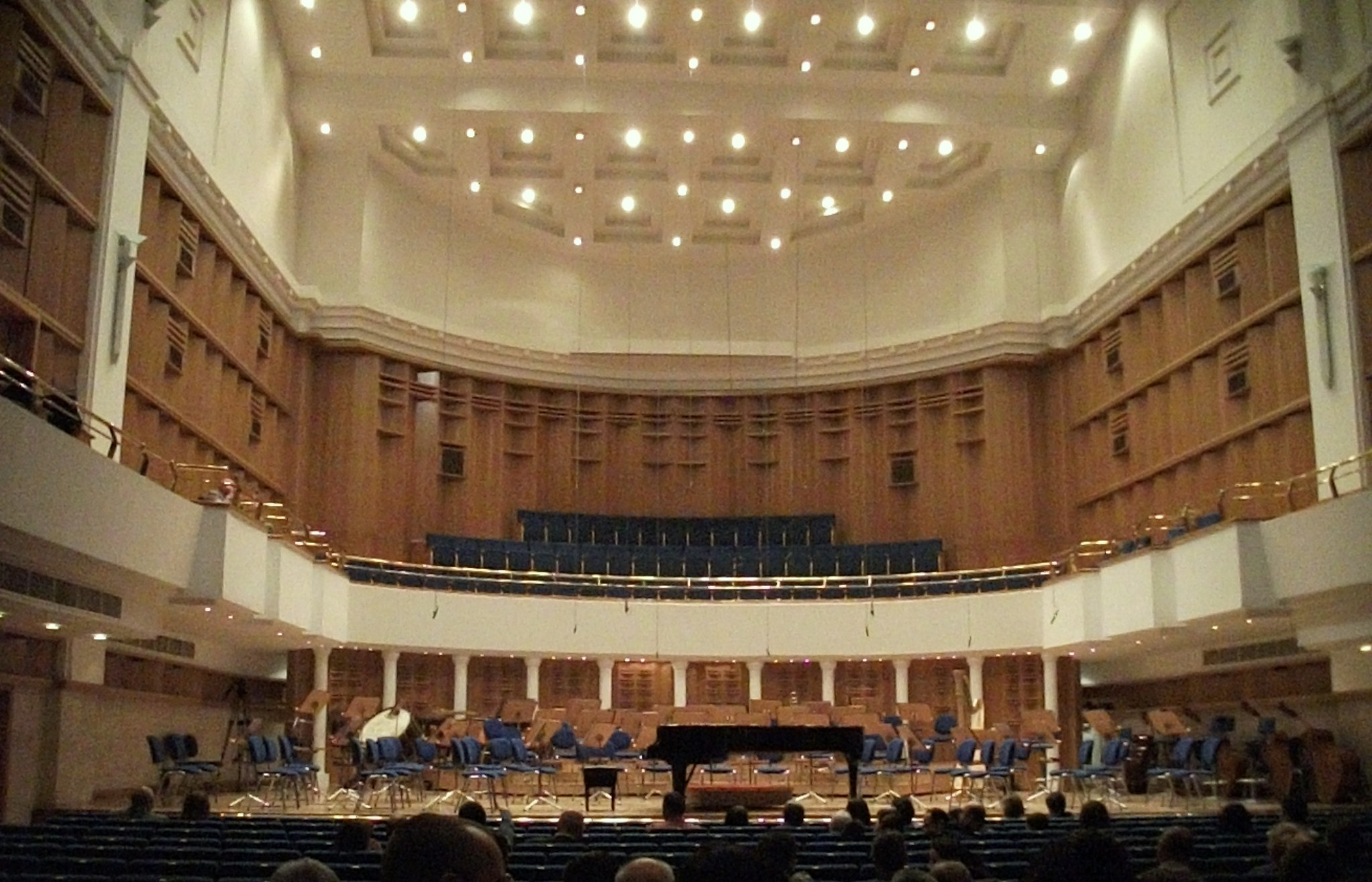 foyer of bilkent concert hall which is home to bilkent symphony orchestra(bso) and bilkent university faculty of music and performing arts